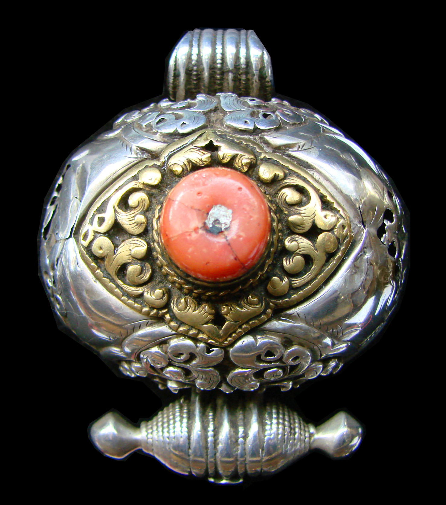 Gau:pendant,reliquary for amulets,silver,silver gilt and coral,Tibet.